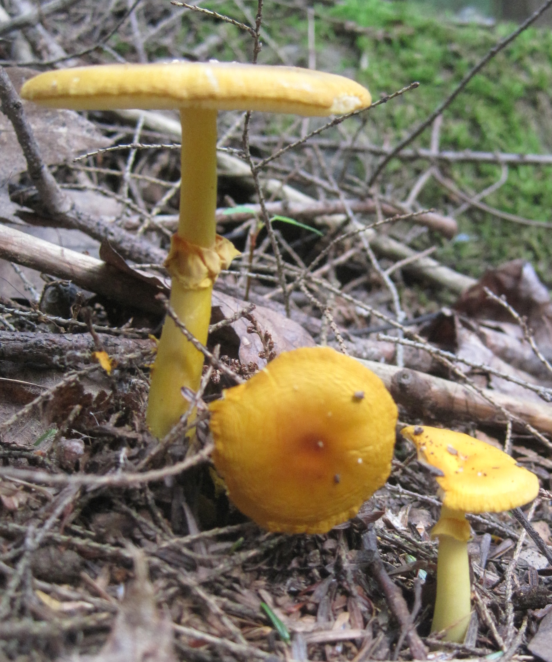 An ectomycorrhizal fruiting body (Amanita spp) observed in a Tsuga canadensis stand at the Harvard Forest, Petersham MA 2012.